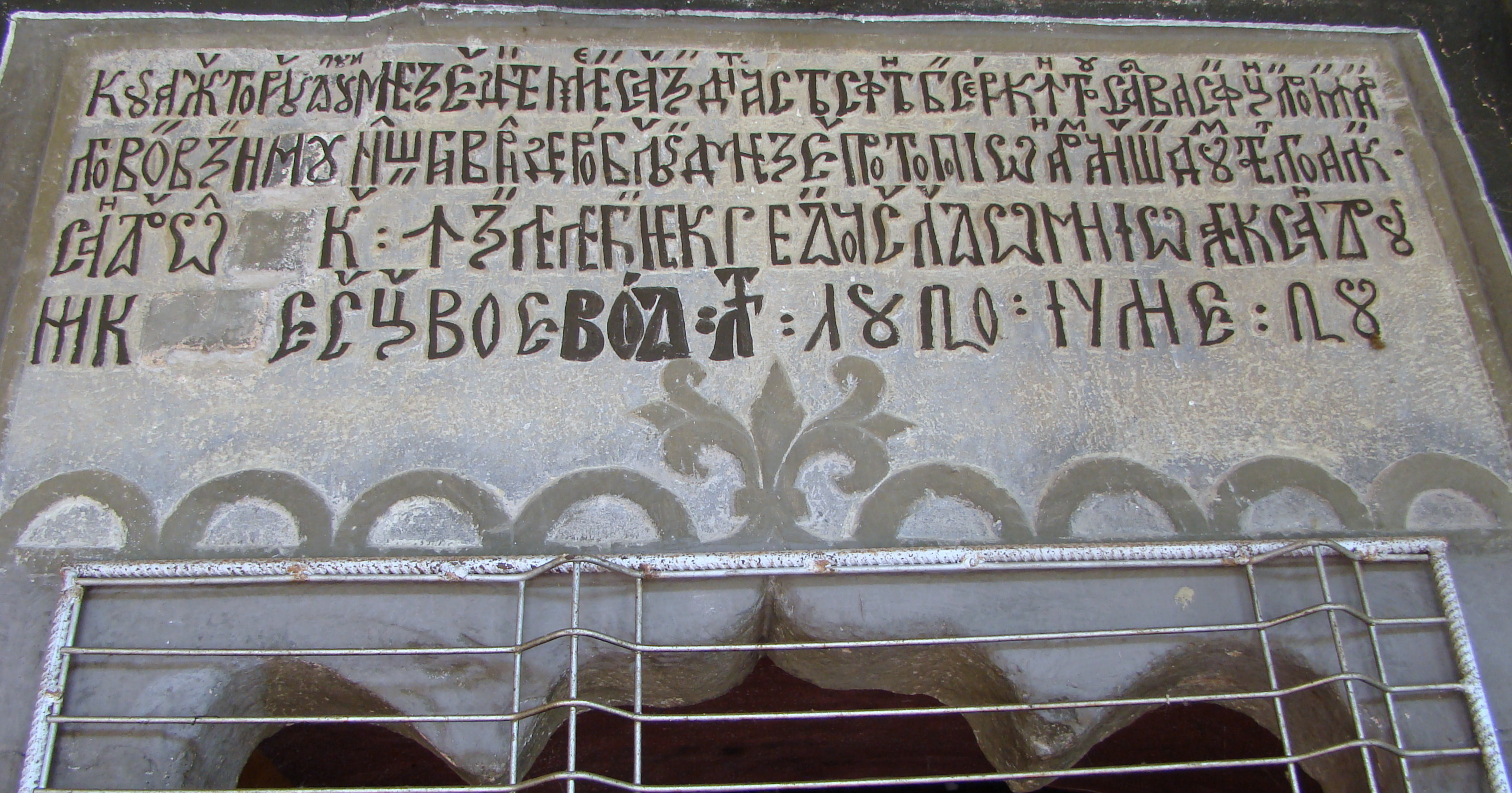 Archangels' church in Olănești, Vâlcea county, Romania